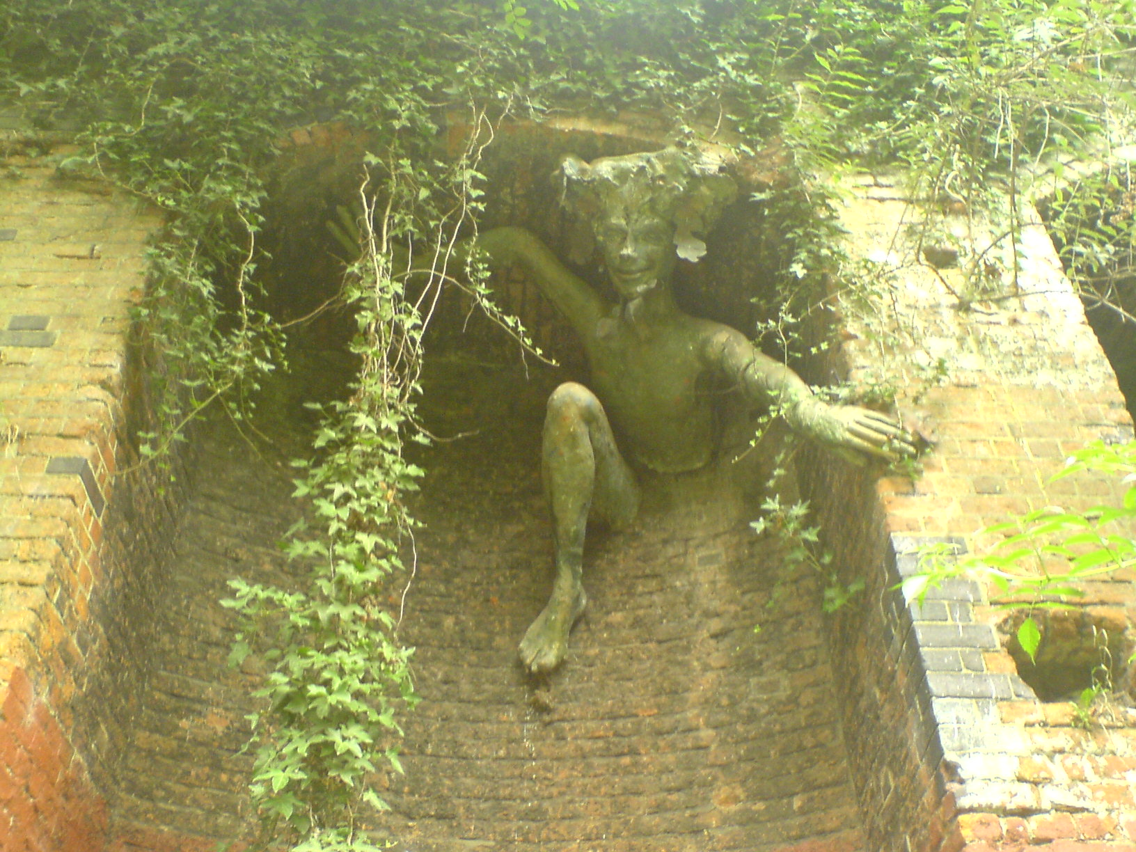 A sculpture along the Parkland Walk in London. Made by Marilyn Collins.